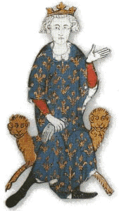 Philip IV of France